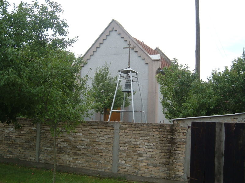 Catholic church in Nadalj